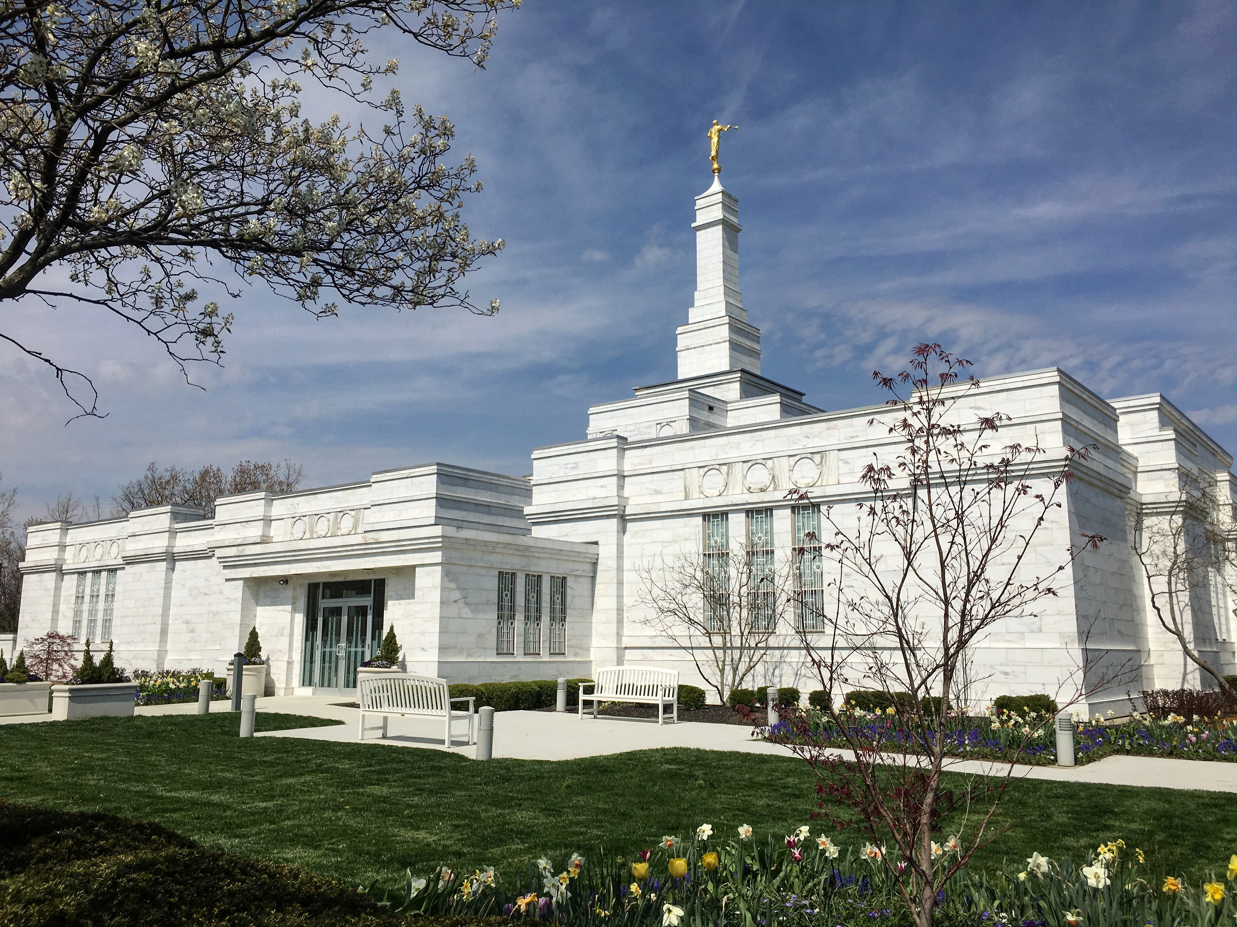 Main entrance of the Columbus Ohio Temple in Columbus, Ohio. The temple was dedicated in 1999 as the 60th operating temple of The Church of Jesus Christ of Latter-day Saints. It is one of nearly 40 that use the same layout and basic design.